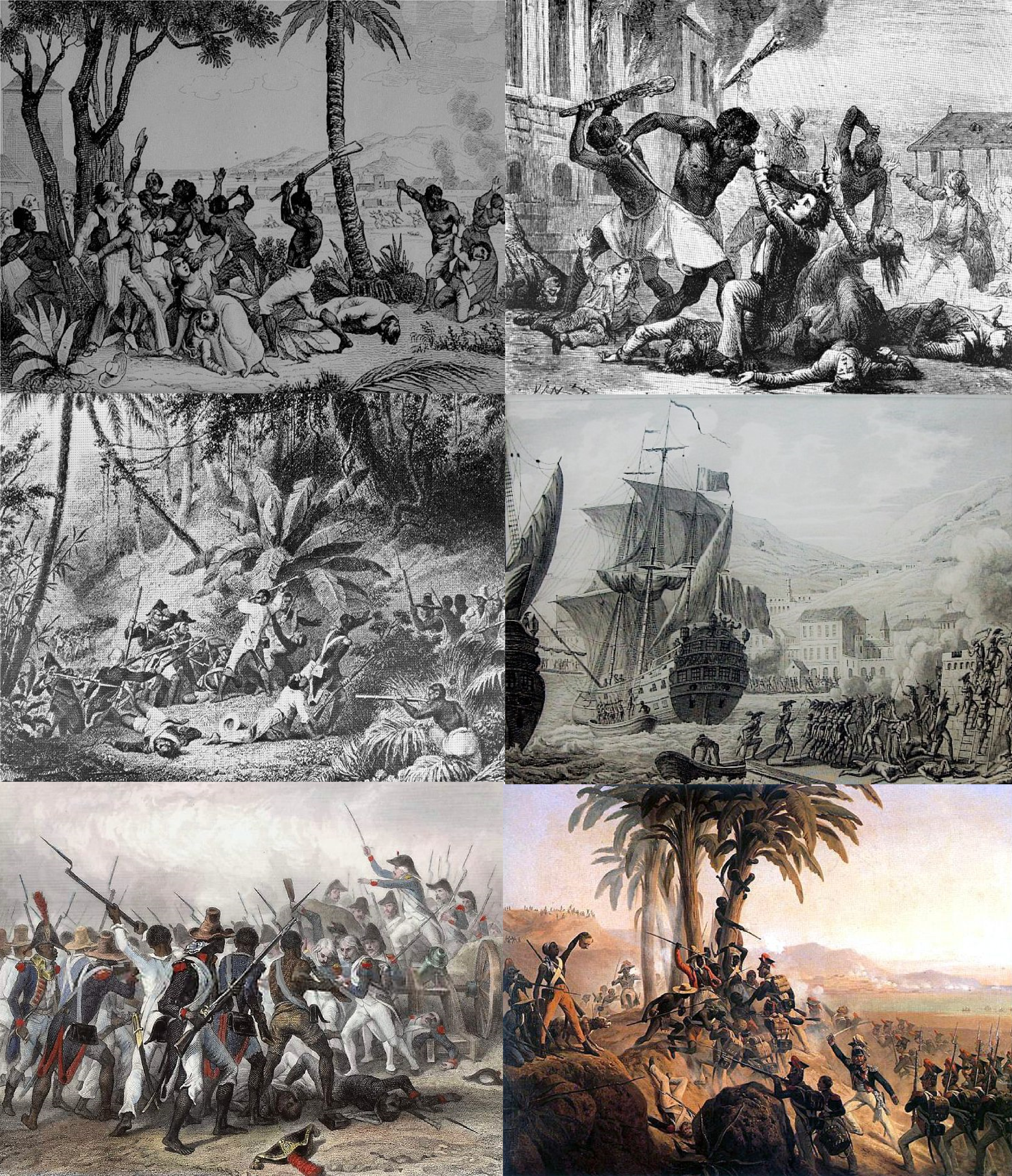 Collage of the Haitian Revolution